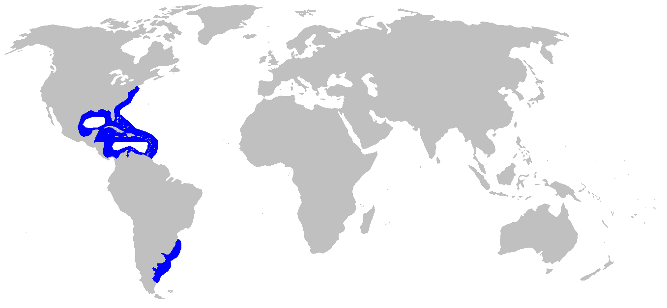 Distribution map for Mustelus canis